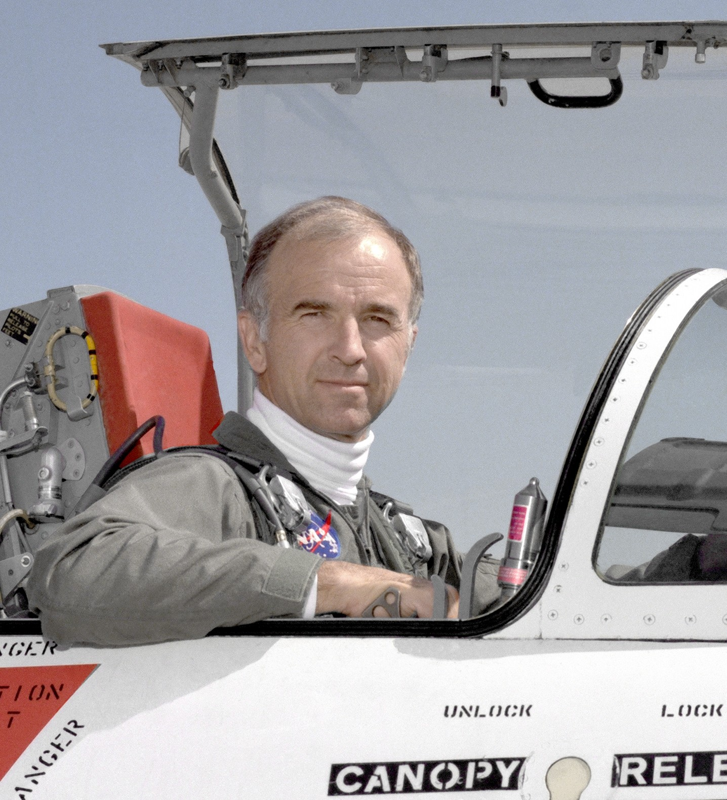 NASA Dryden Flight Research Center test pilot Einar K. Enevoldson.